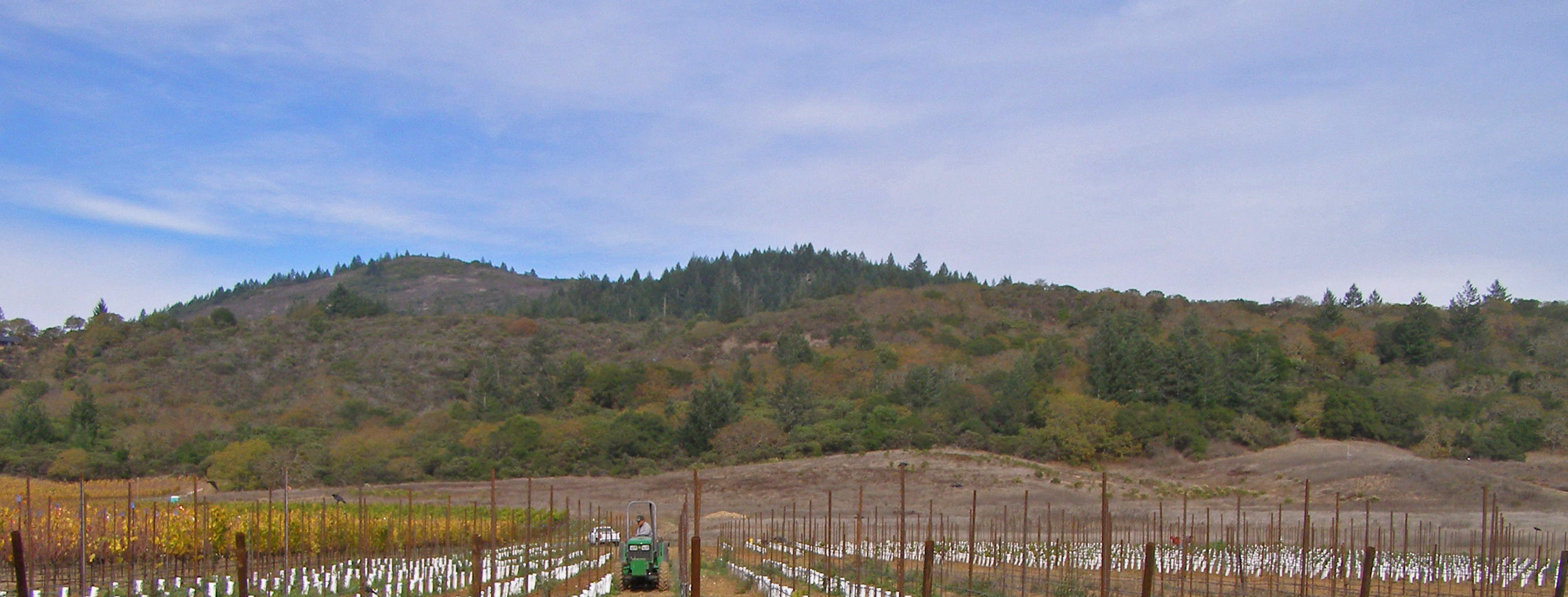 a vineyard and the Mayacamas Mountains — in Sonoma County, California. This face of the range is the headwaters watershed of Santa Rosa Creek. Credits I took this photo and release all rights. the scene is of the h.